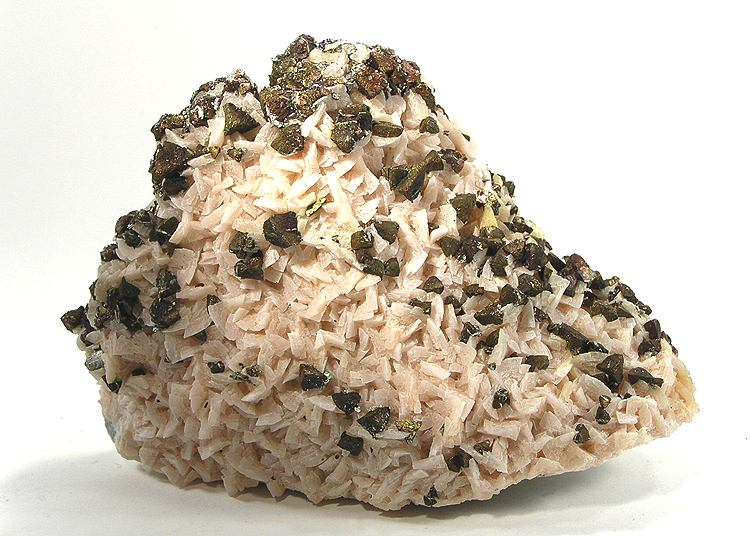 Chalcopyrite, Dolomite Locality: Mid-Continent Mine, Treece, Picher Field, Tri-State District, Cherokee County, Kansas, USA (Locality at ) Iridescent chalcopyrite crystals scattered on a plate of light pink dolomite crystals, a large and pretty piece from Oklahoma. OLD MATERIAL from the TriState district, mined in the 1940s-60s 11.4 x 7.2 x 4.6cm